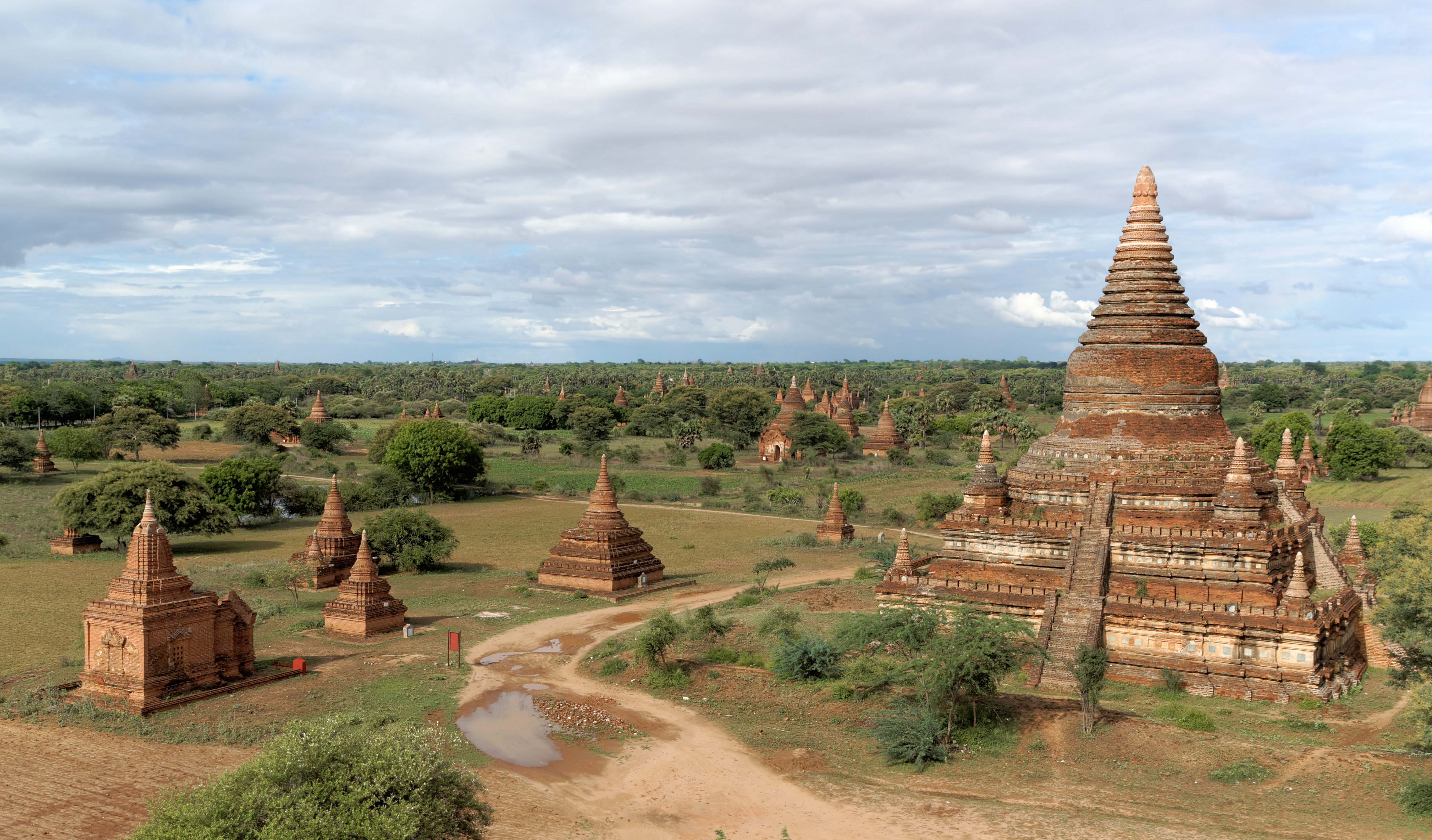 Temples on Bagan Plain in Myanmar